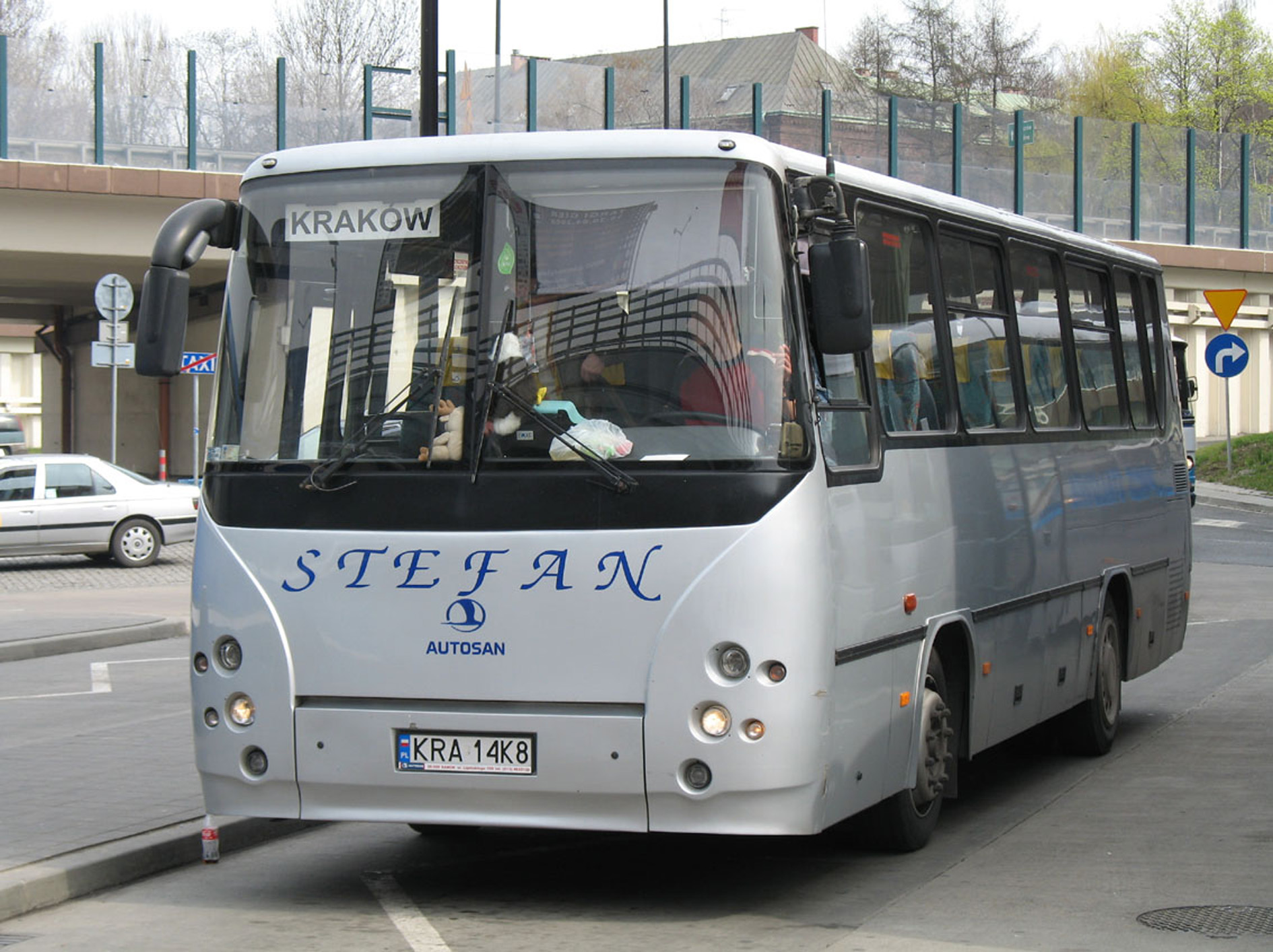 Autosan A0909L Tramp II bus in Kraków, Poland. Stafan company from Widoma near Iwanowice.